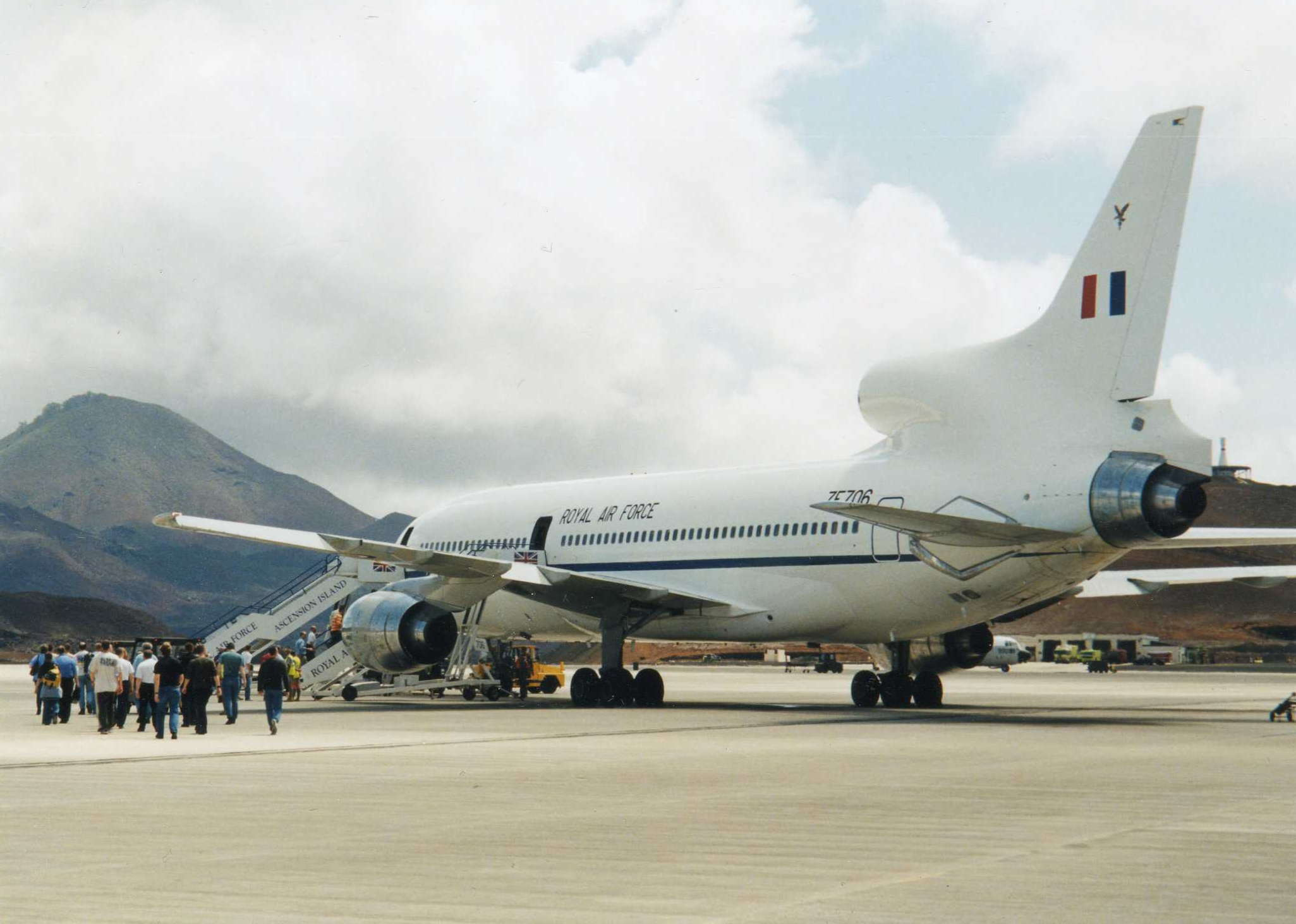 The most direct route to the Falklands is around 13,000km from RAF Brize Norton via a refueling stop at Wideawake Airfield on Ascension Island to Mount Pleasant.